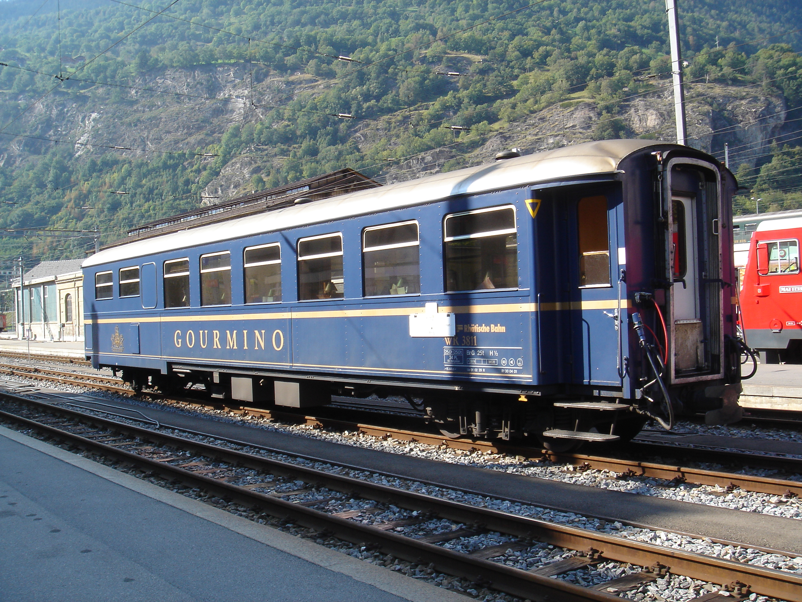 RhB dining car WR 3811 waits for the Glacier-Express from Zermatt